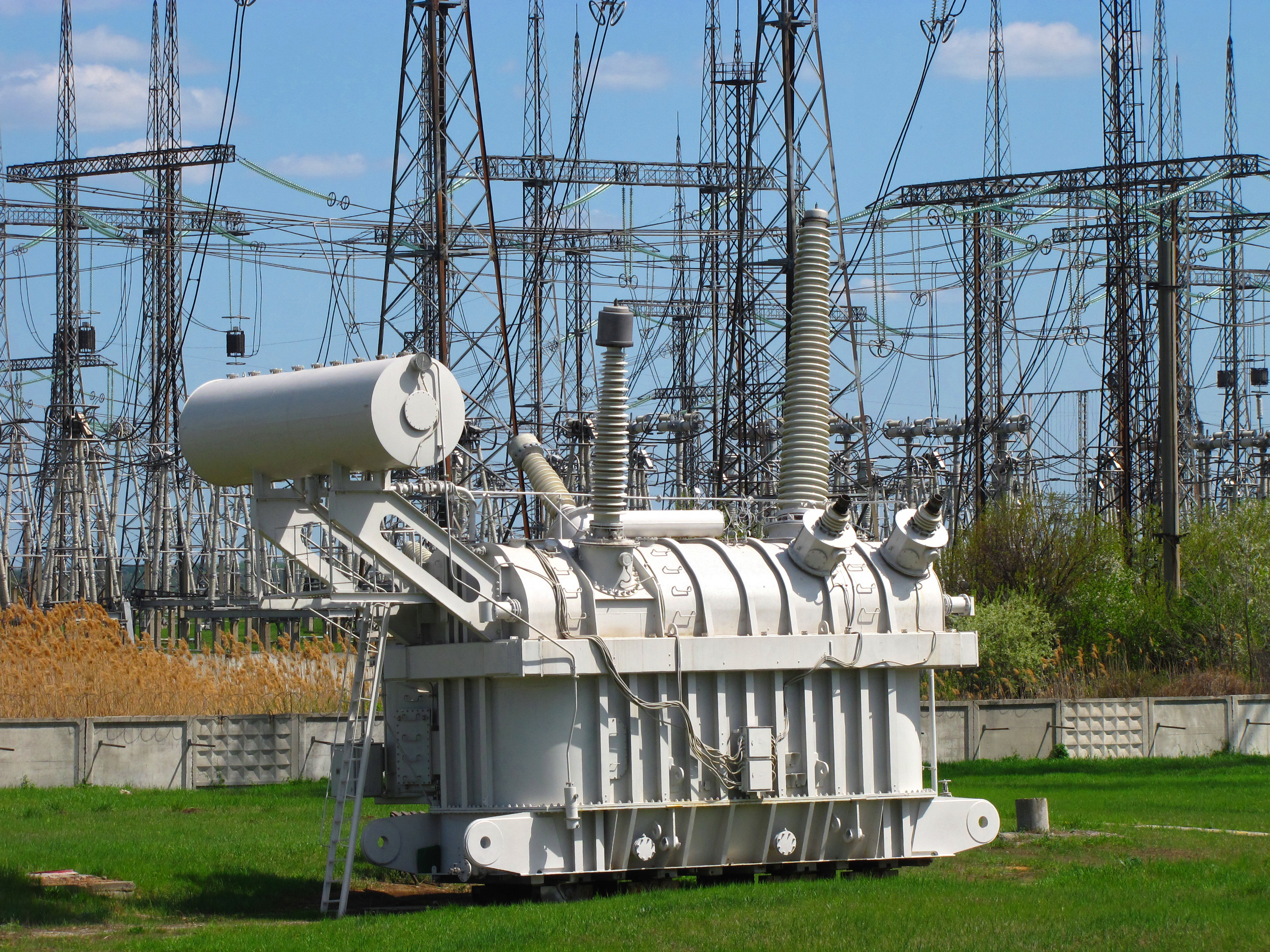 A high-voltage transformer 750 kV within the territory of electrical substation (the standby transformer).